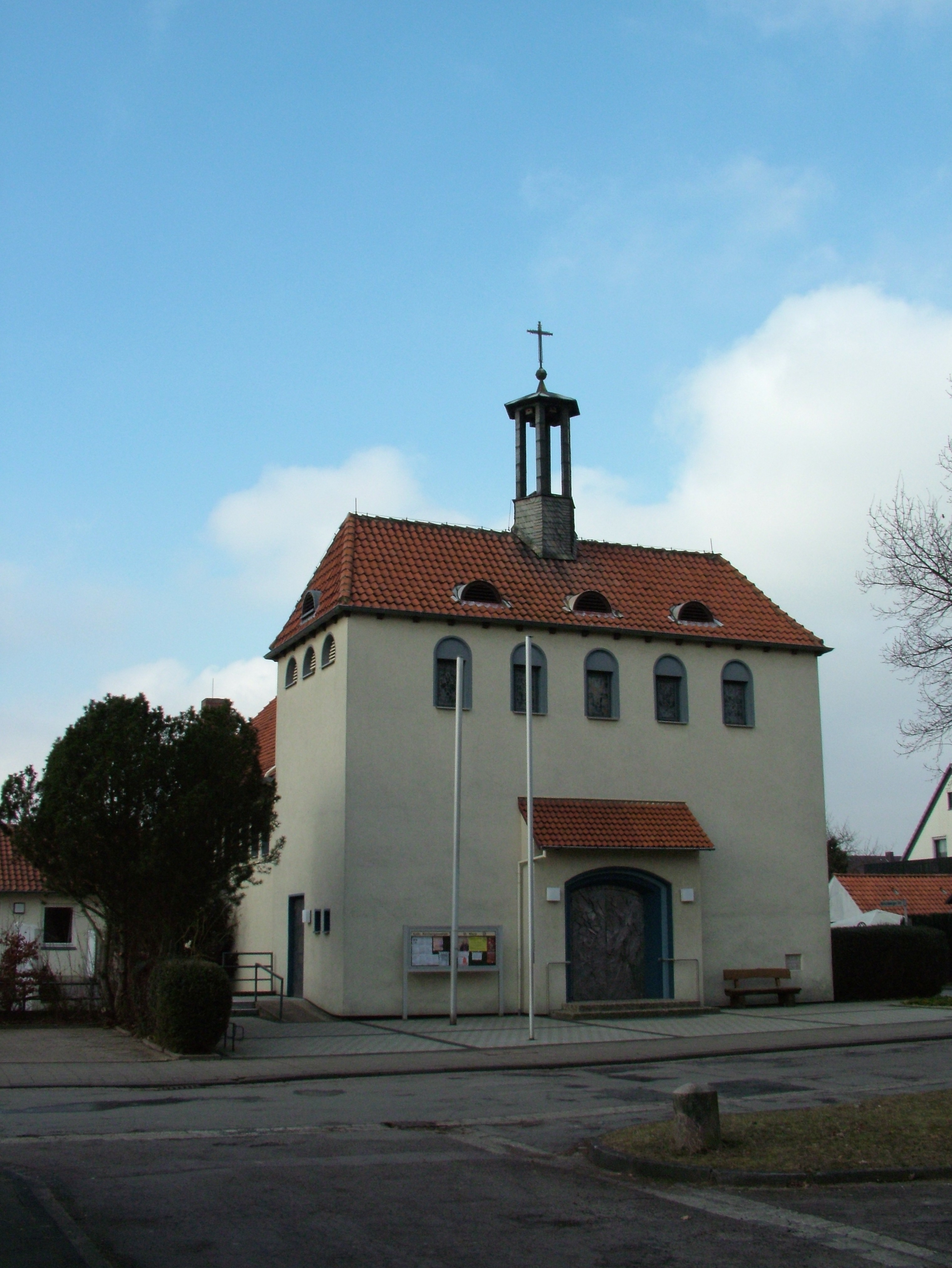 Pattensen, Germany, the cath. church